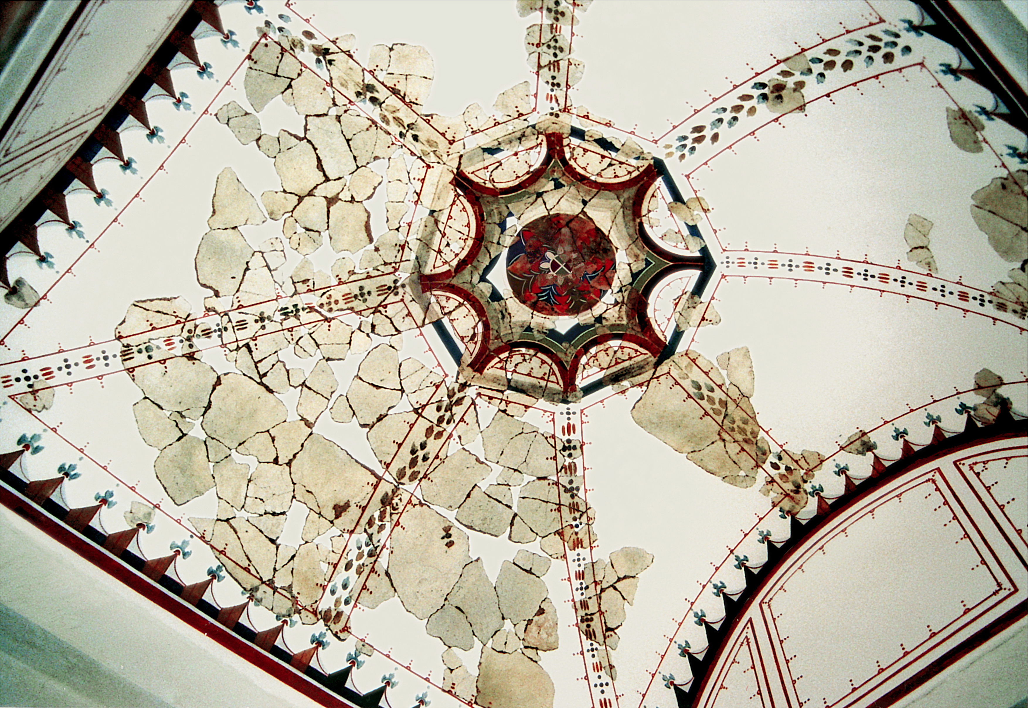 Villa Rustica Ahrweiler, Germania Inferior, Germany: Square, with a barrel vault equipped room, which open to the corridor. This room and the paintings of the vault were partially reconstructed with the Haus II in the second half of the first century AD.